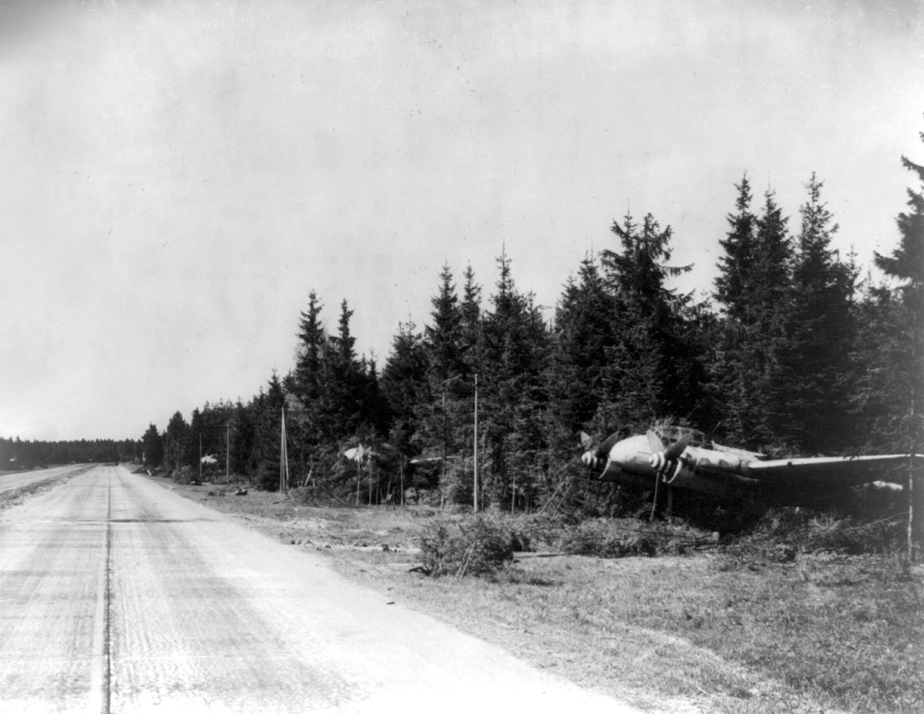 German Ju 88 Airplanes hidden along Autobahn.